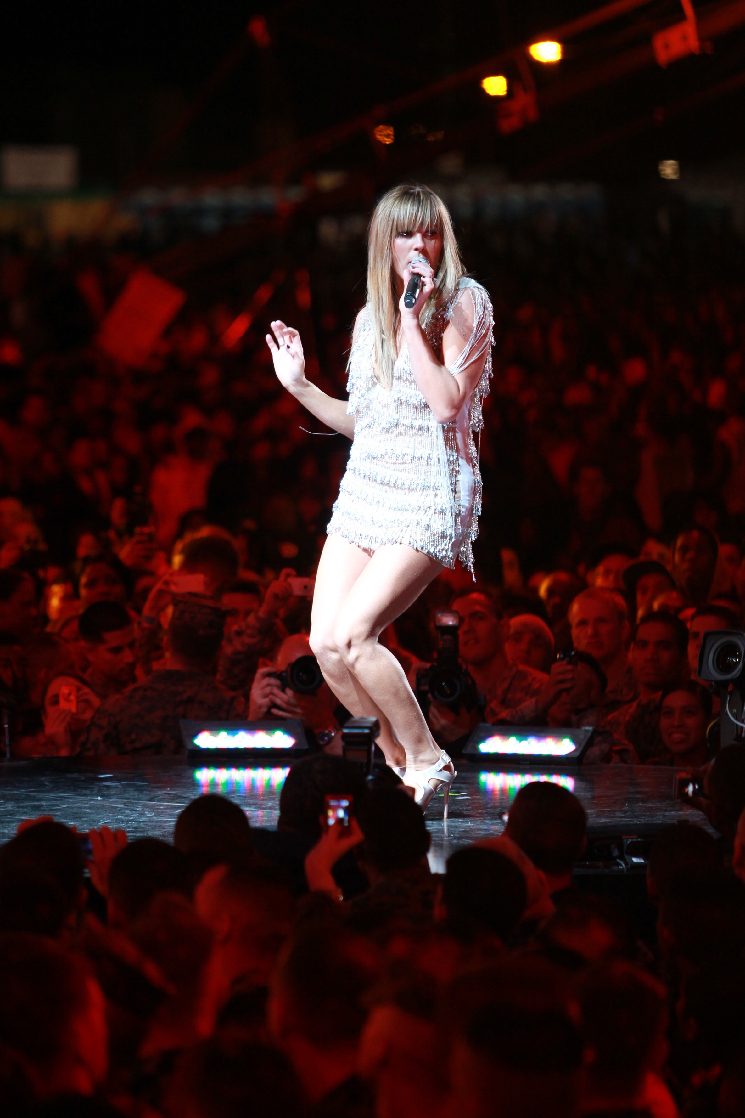 Grace Potter performs for service members during the 2010 VH1 Divas Salute the Troops concert at Marine Corps Air Station Miramar, Dec. 3. Other performances included Katy Perry, Keri Hilson, Nicki Minaj, Sugarland, Heart and Kathy Griffin.